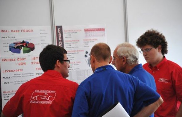 SquadraCorse Polito during FSG 2009's cost analysis event